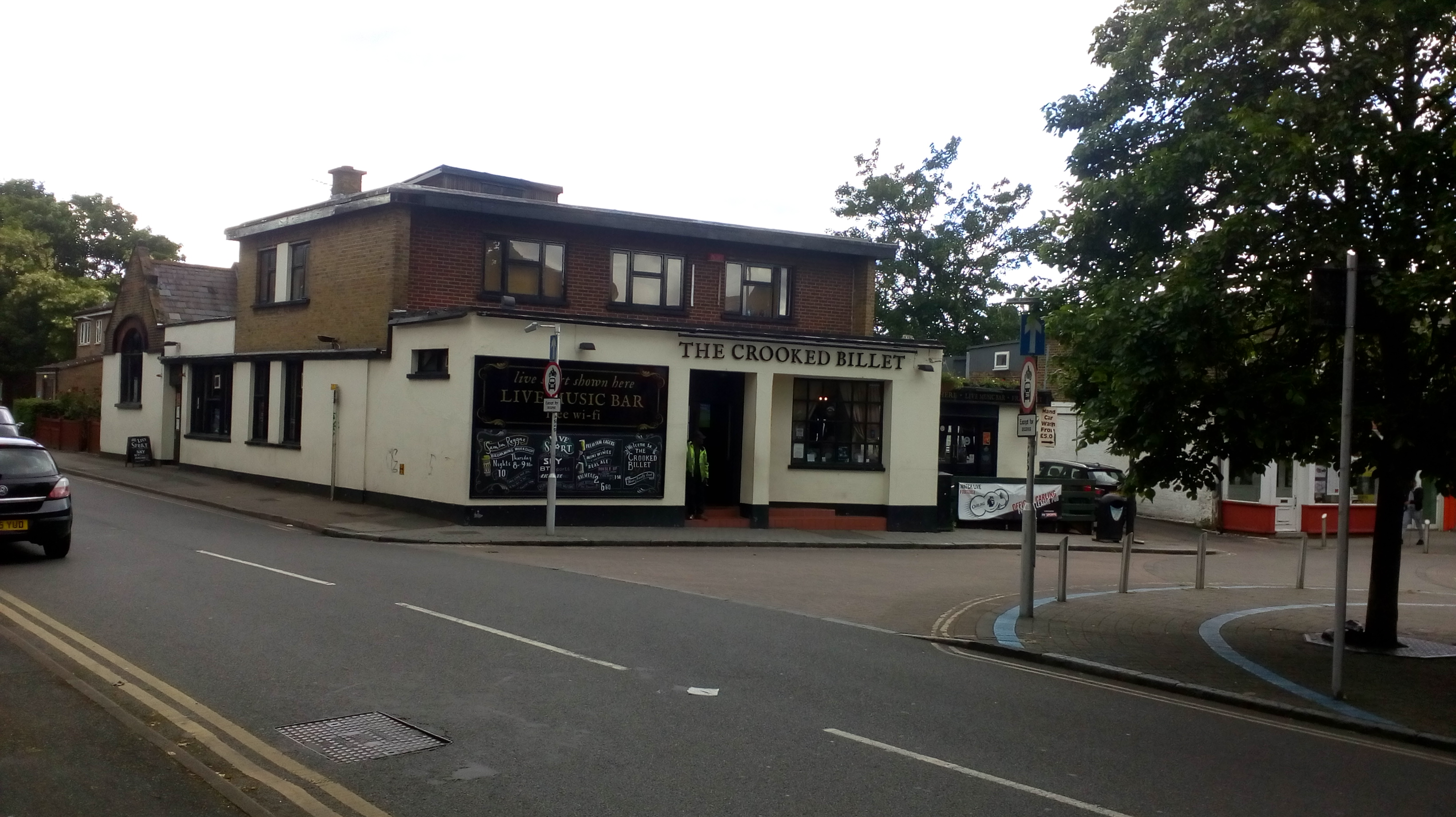 The Crooked Billet Pub in Penge, London Borough of Bromley